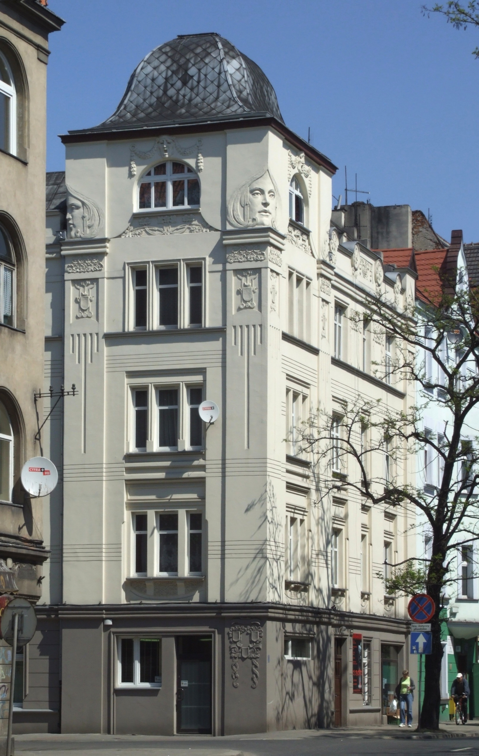 Art Nouveau building in Gliwice, Upper Silesia.